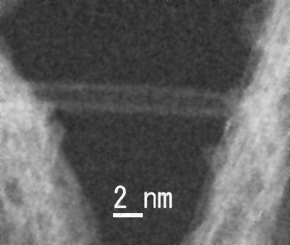 (HAADF, STEM) Electron microscopy image of a single-wall carbon nanotube suspended between two CNT bundles